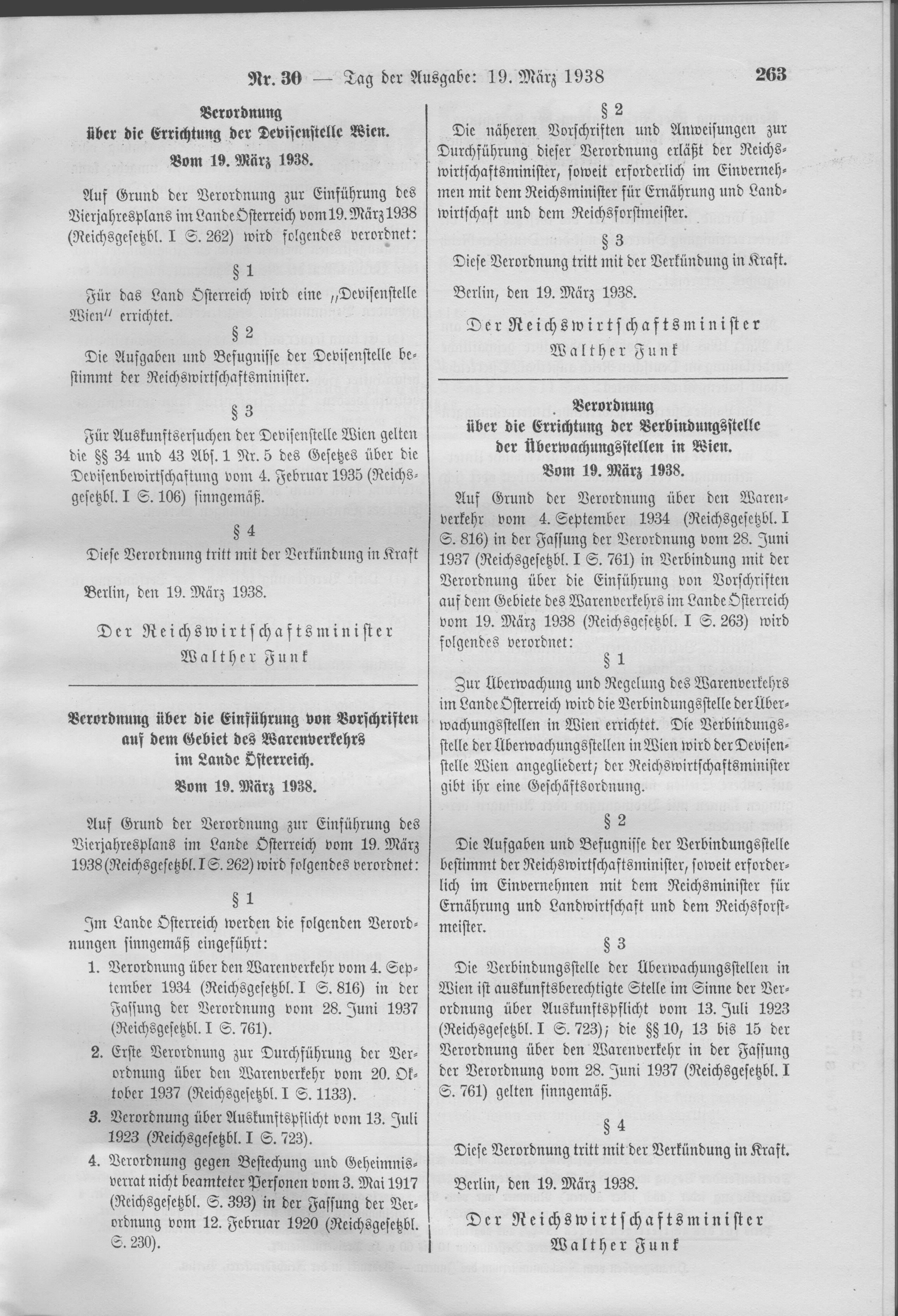 Scan from the Imperial Law Gazette of Germany, 1938, part 1